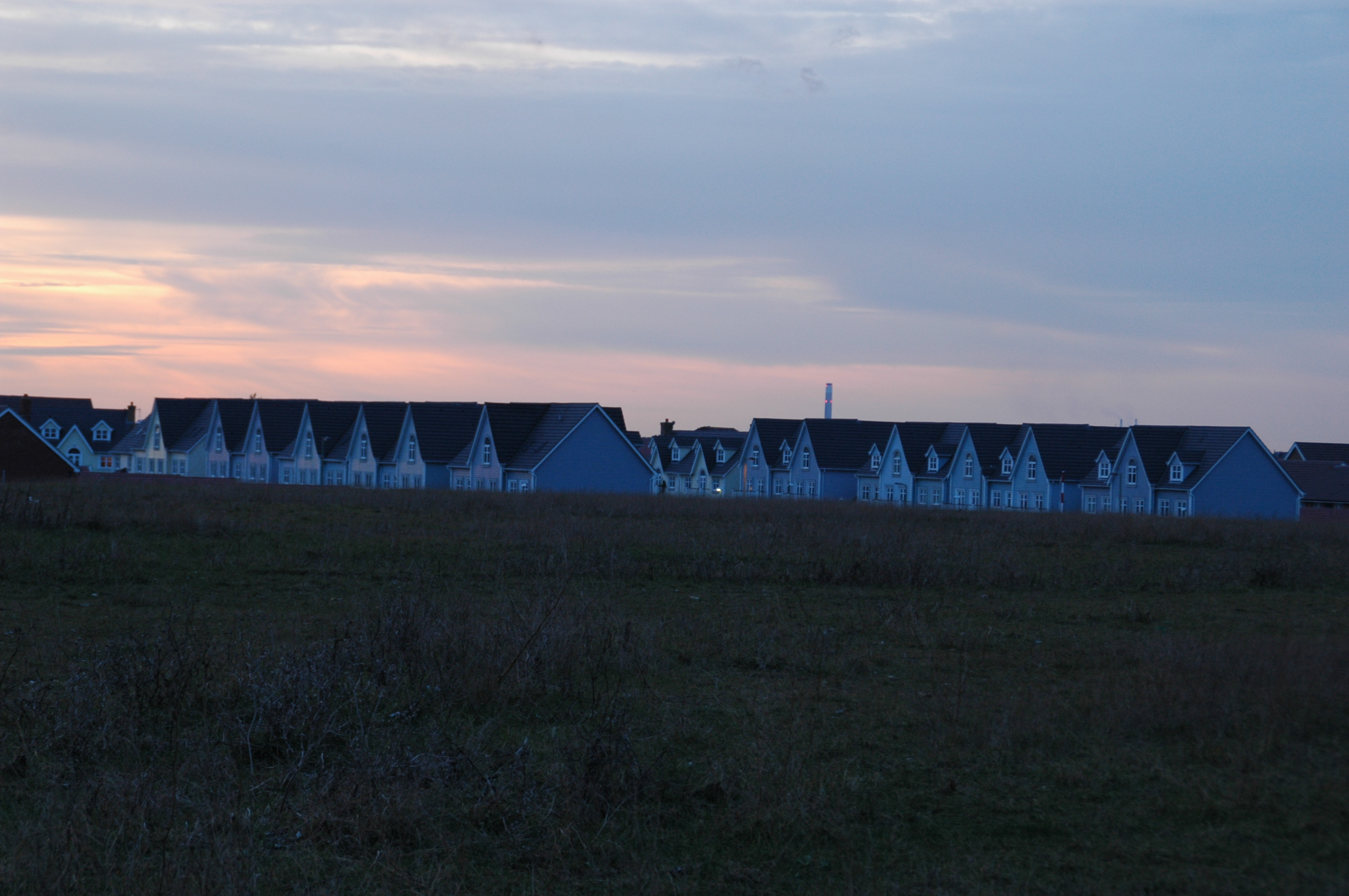 Sunset Picture Over Cherque Farm